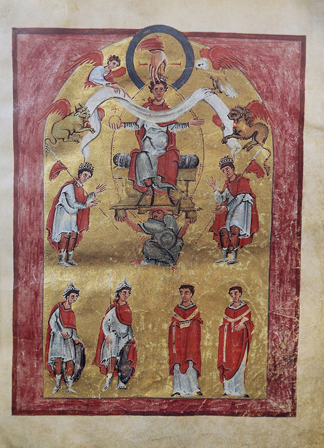 The Gospels of Otto III. 1000. (Liuthar Gospels, Aachen).